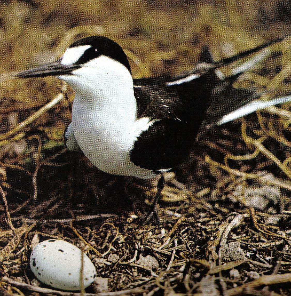 Sooty tern (Onychoprion fuscatus) and its nest